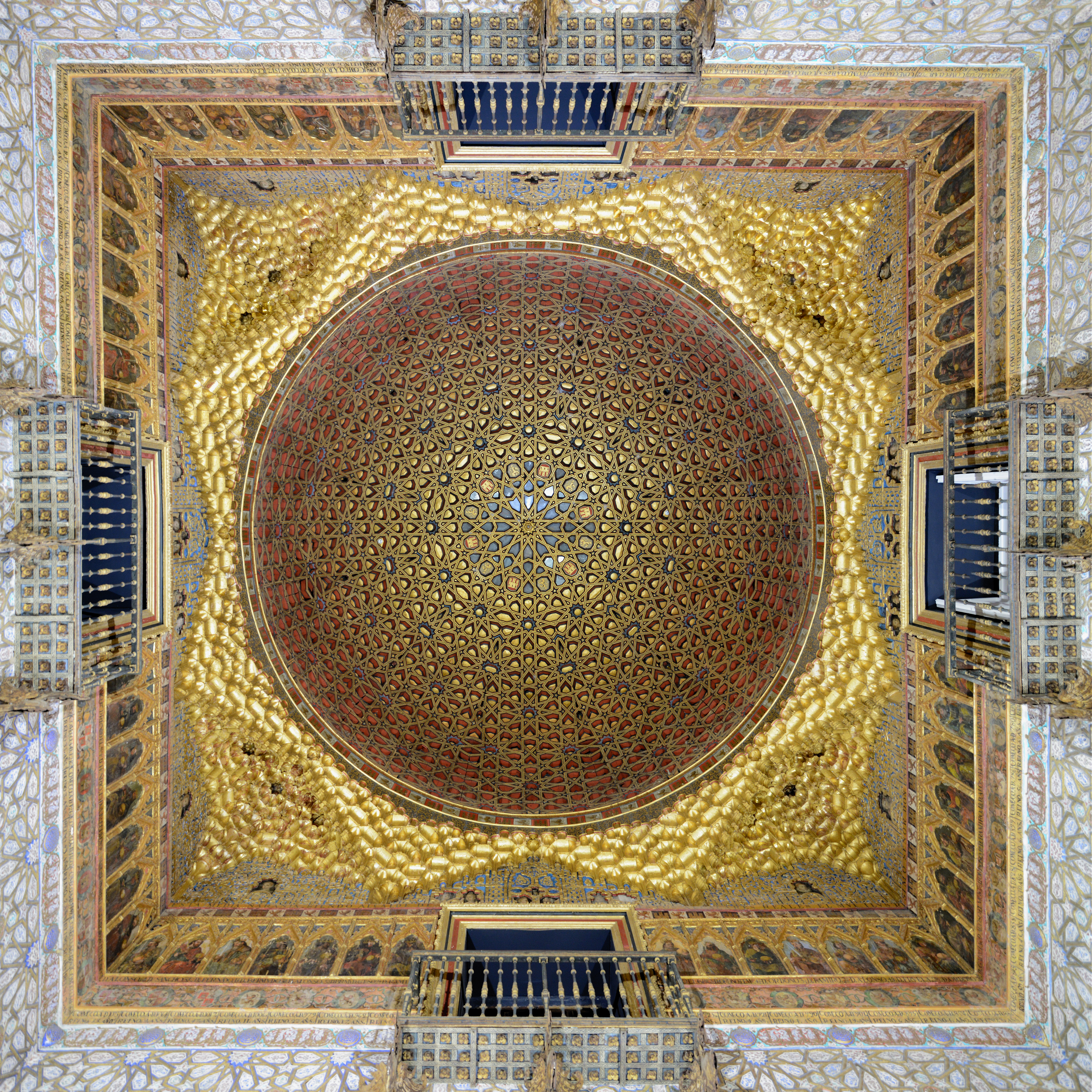 Salon of Ambassadors, Alcázar of Seville (dome)